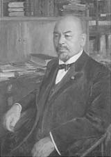 Portrait of Katayama Kunika, by Wada Eisaku, Tokyo University